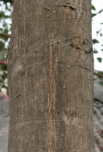 Desi Badam Terminalia catappa in Kolkata, West Bengal, India.